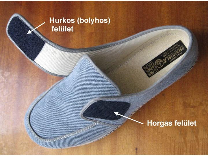 Velcro on a shoe (Hurkos felület = Loops, Horgos felület = Hooks)